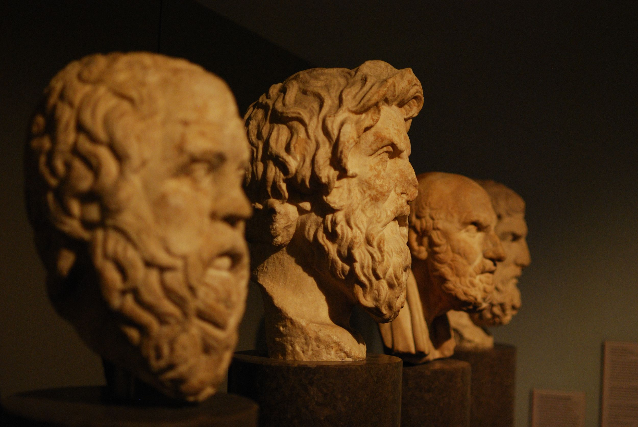 Sokrates, Antisthenes, Chrysippos, Epikouros